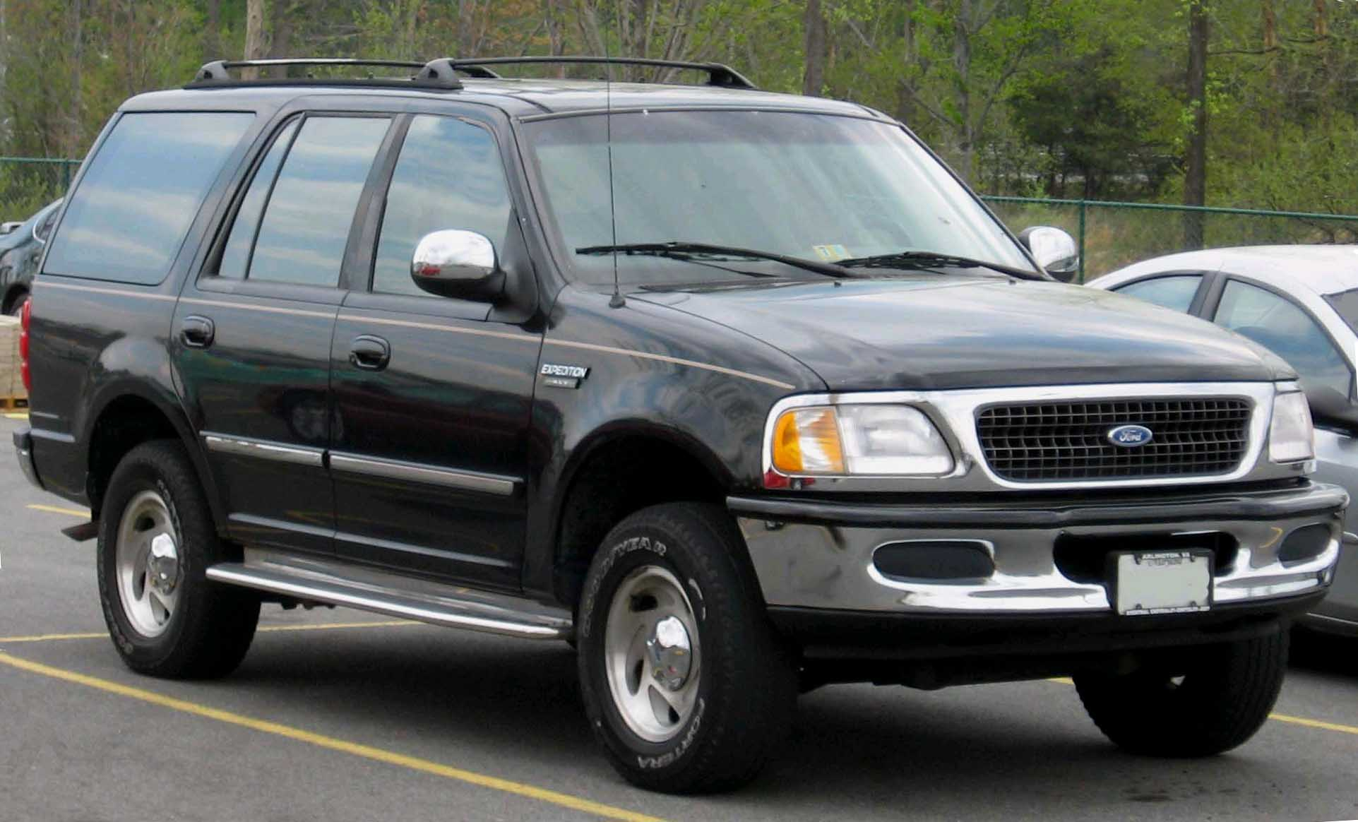 1997-1998 Ford Expedition photographed in USA.